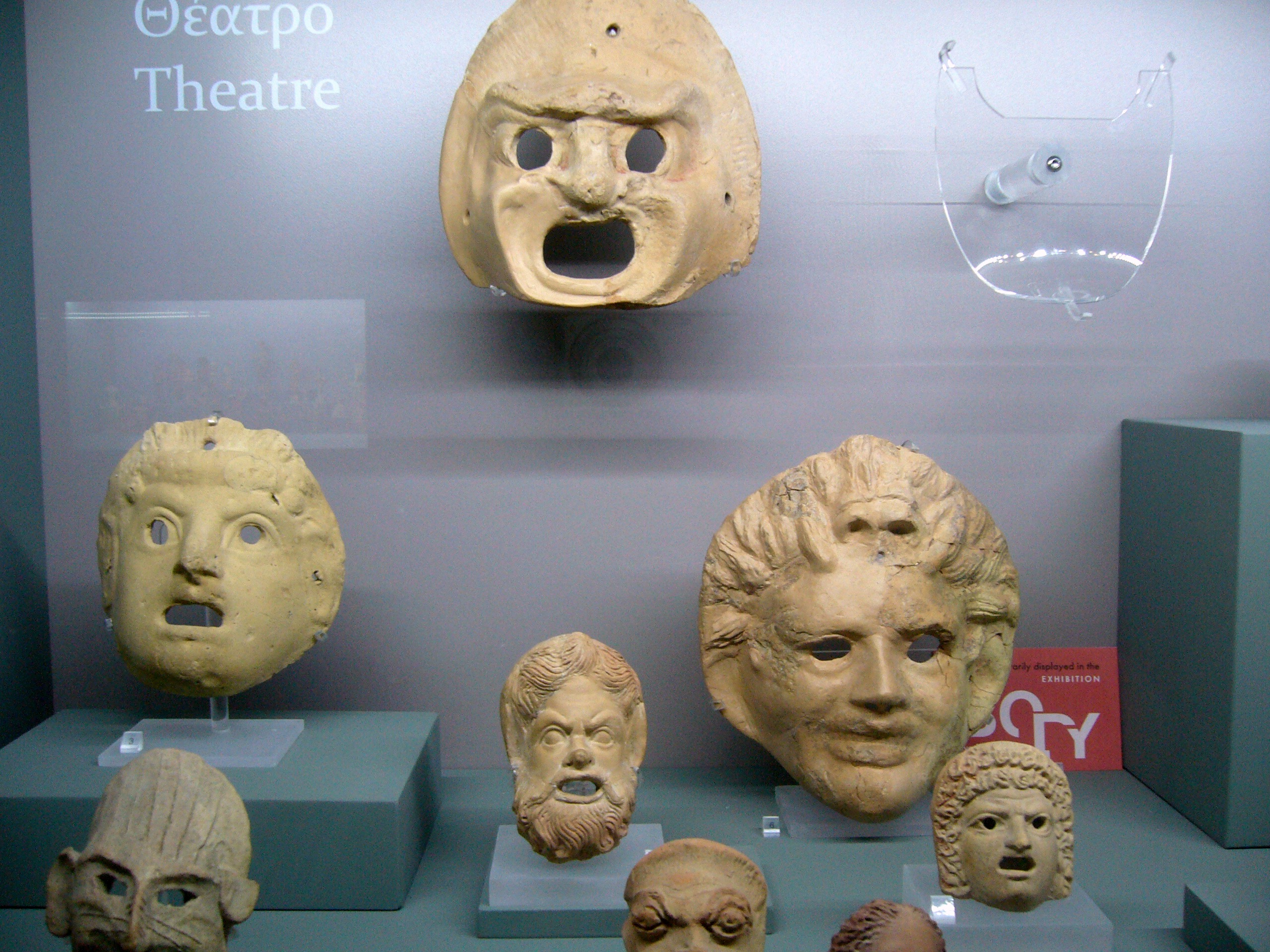 Theater masks - Archaeological Museum, Nicosia, Cyprus